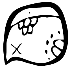 Maya:glyph:logogram:calendric:Tzolkin:Day19:Kawak:codex+W:v01. Img created by CJLL Wright.